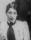 Alfred Dreyfus (1859-1935) with his wife, née Lucie Hadamard (1869-1945), and their two children, Pierre (1891-1946) and Jeanne Levy (1893-1981).